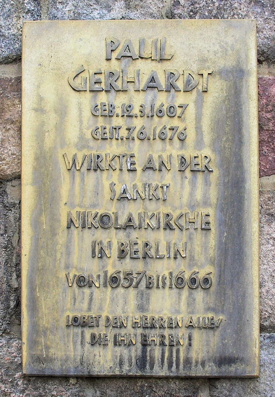 Memorial plaque, Paul Gerhardt, Nikolaikirchplatz , Berlin-Mitte, Germany